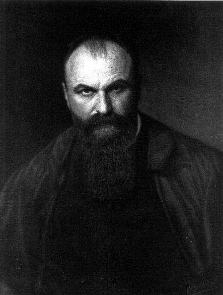 self-portrait of Nicola Perscheid